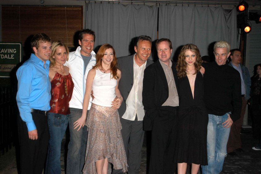 Tom Lenk, Emma Caulfield, Alexis Denisof, Alyson Hannigan, Anthony Stewart Head, Joss Whedon, Michelle Trachtenberg and James Marsters at the Buffy the Vampire Slayer wrap party.